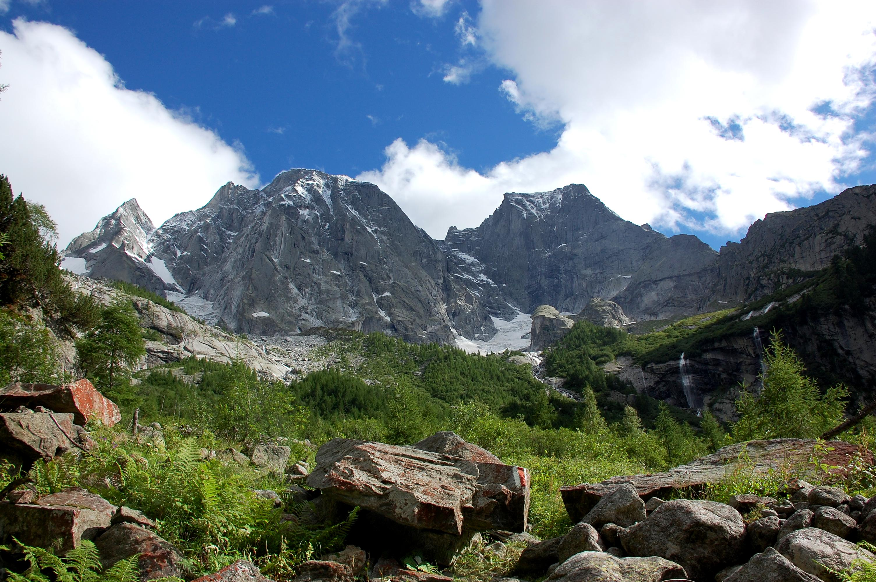 Pizzo Cengalo and Pizzo Badile, Graubünden